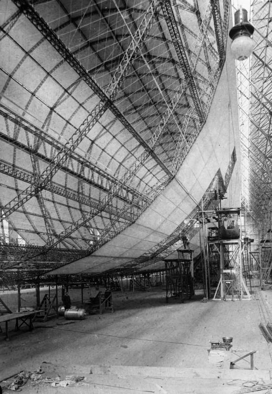 Friedrichshafen on Bodensee (Lake Constance). Construction of the rigid airship Graf Zeppelin LZ 127 in an airship hangar